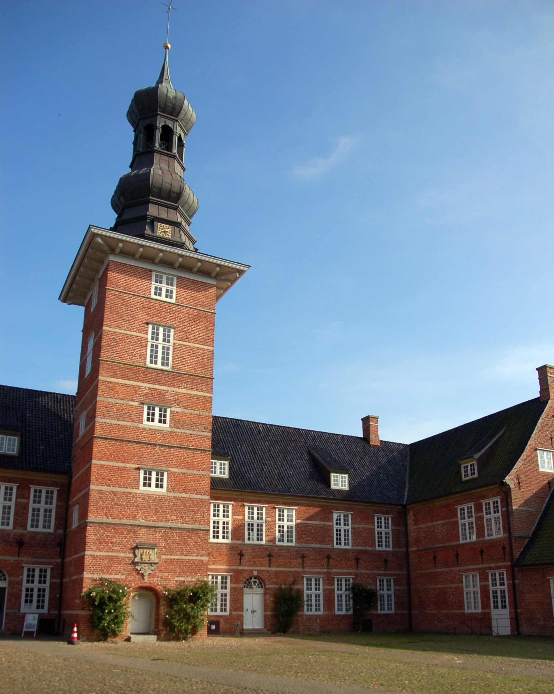 Husum Castle, Germany